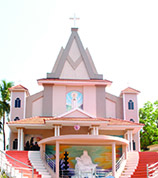 Peruvannamuzhi Fathima Matha Catholic Church